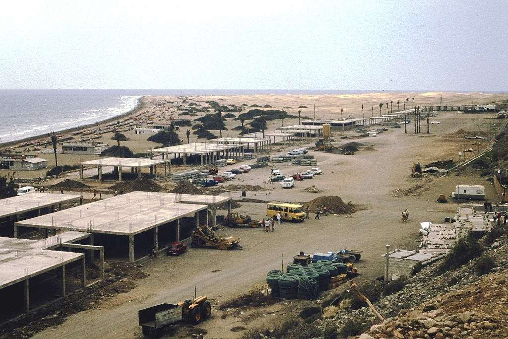 Construction work on the beach of Playa del Ingles - 1978. - In the background, the sand dunes of Maspalomas.